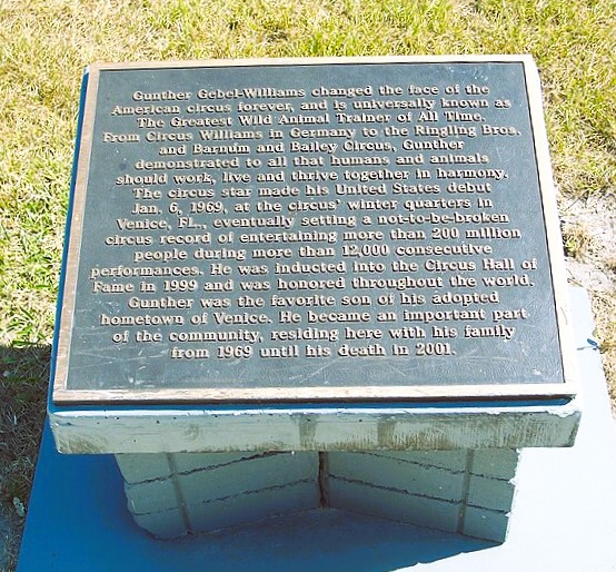 Venice, Florida: Gunther Gebel-Williams statue